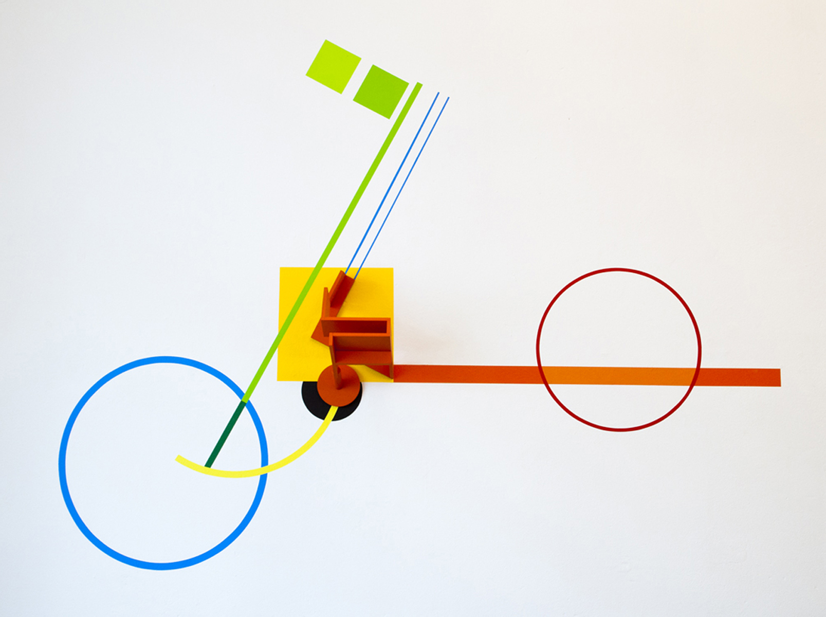 Susanne Kathlen Mader, Velo, wallpainting and sculpture combined, 2011.